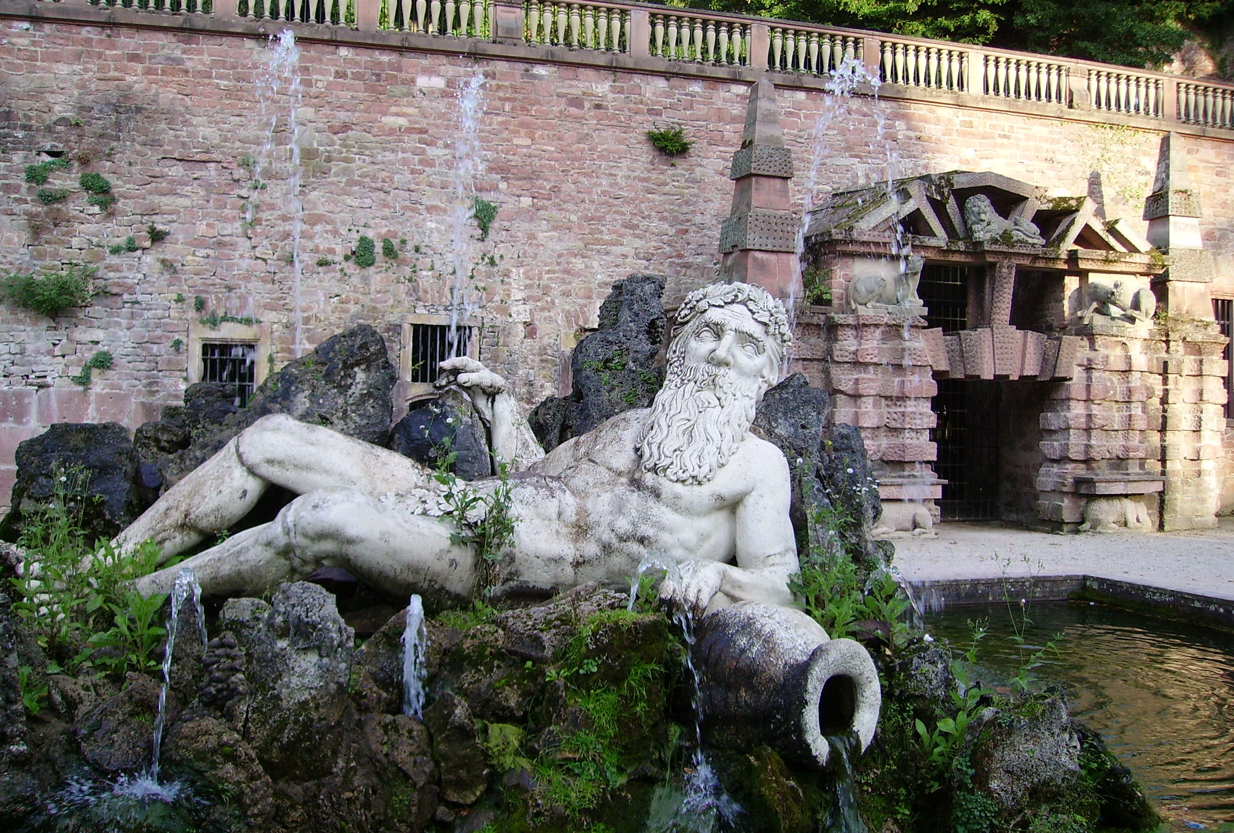 garden of Heidelberg castle (Hortus Palatinus)